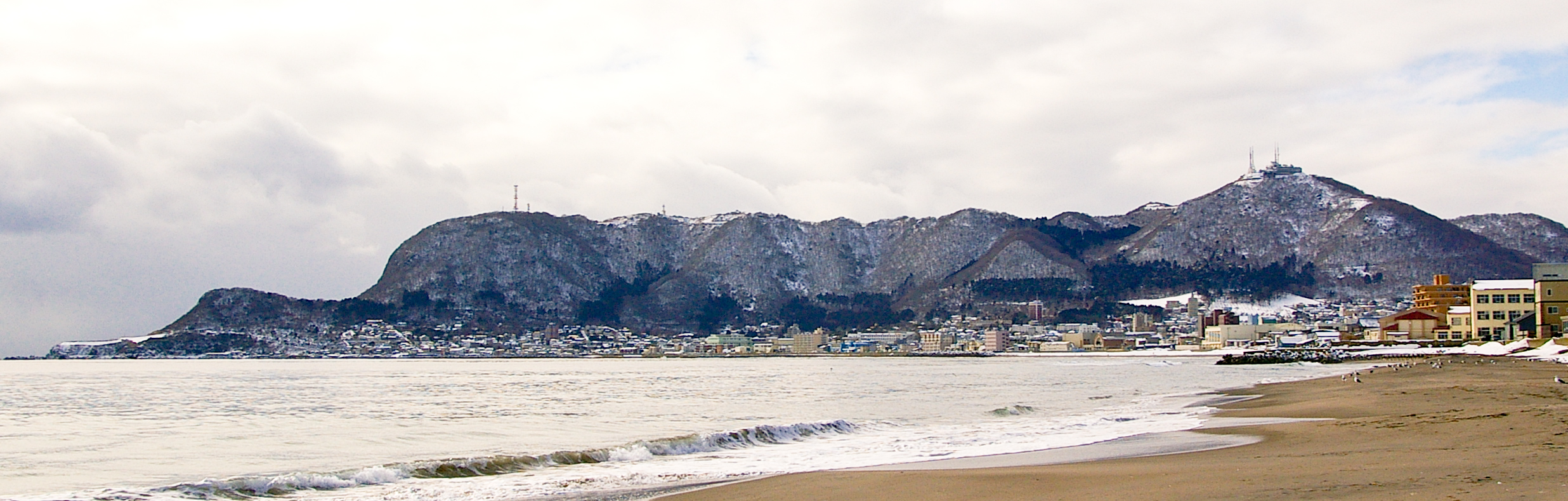 Panoramic photograph of Mt. Hakodate taken from Omori Beach, Hakodate, Hokkaido, Japan.